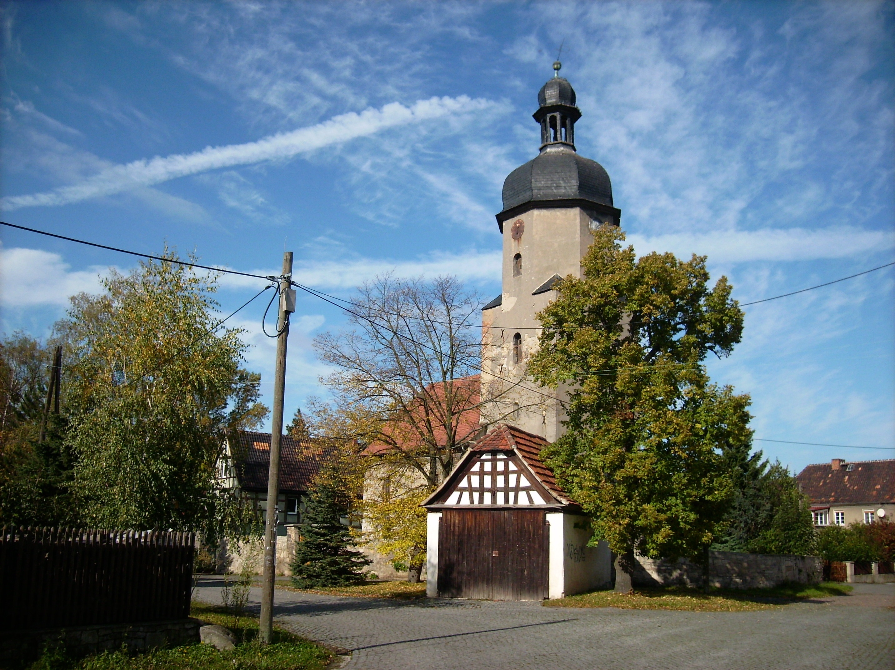 Church of the village of Molau (Molauer Land, district of Burgenlandkreis, Saxony-Anhalt)